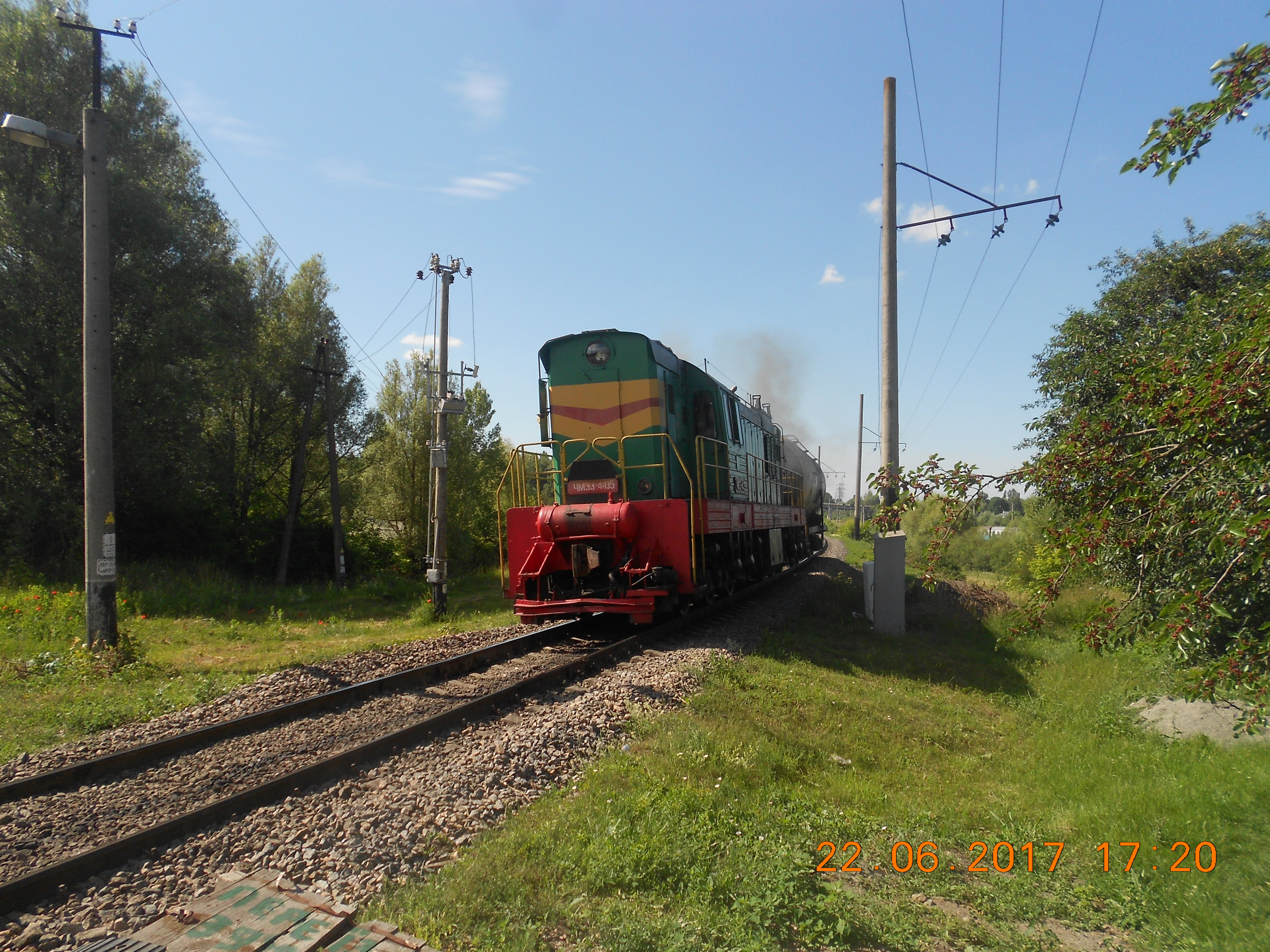 CHME3-4435